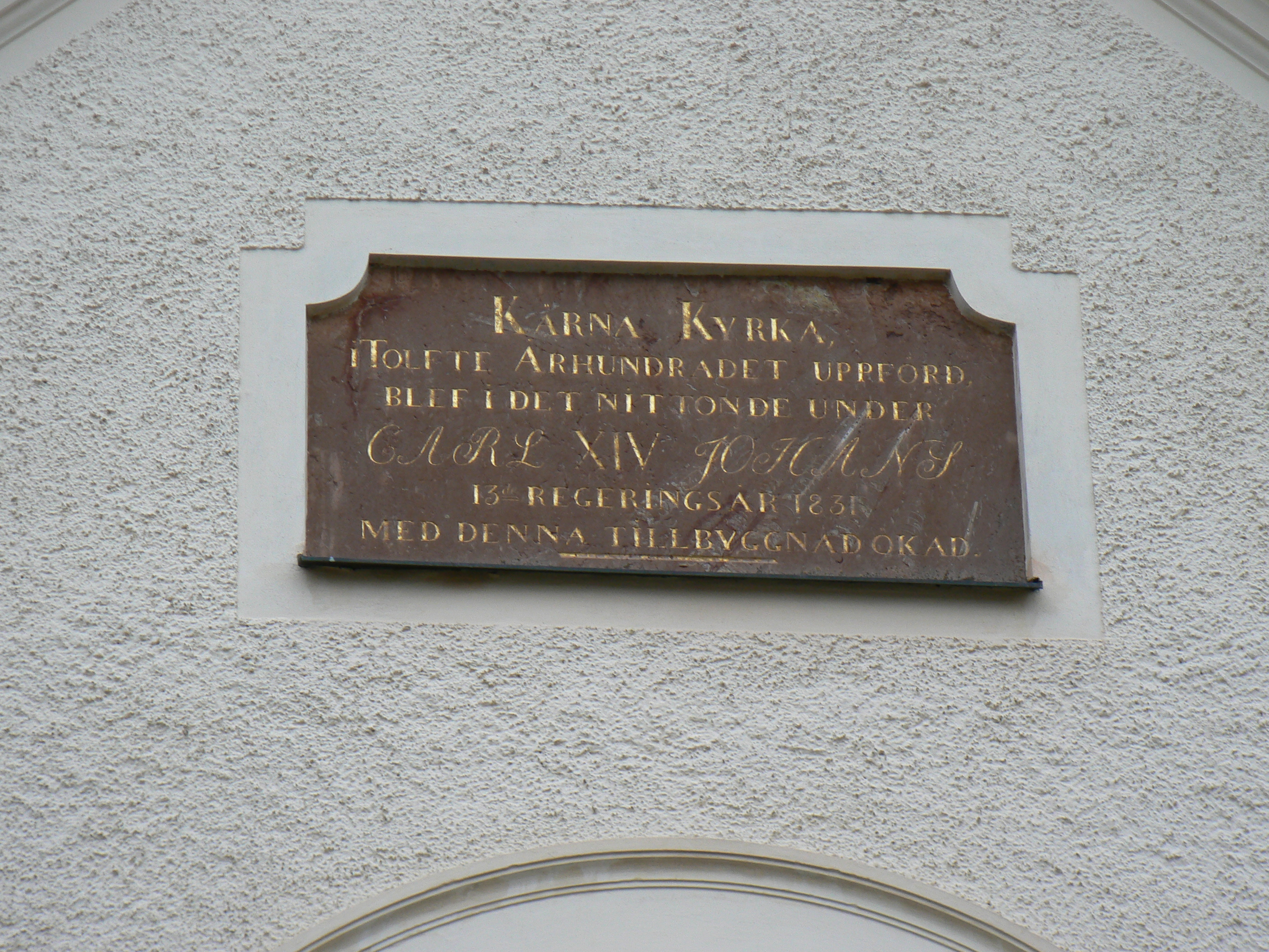 Inscription on Kärna church in Linköping, telling that it originates from the 12th century but was enlarged 1831. Photo by Skvattram in November 2006.